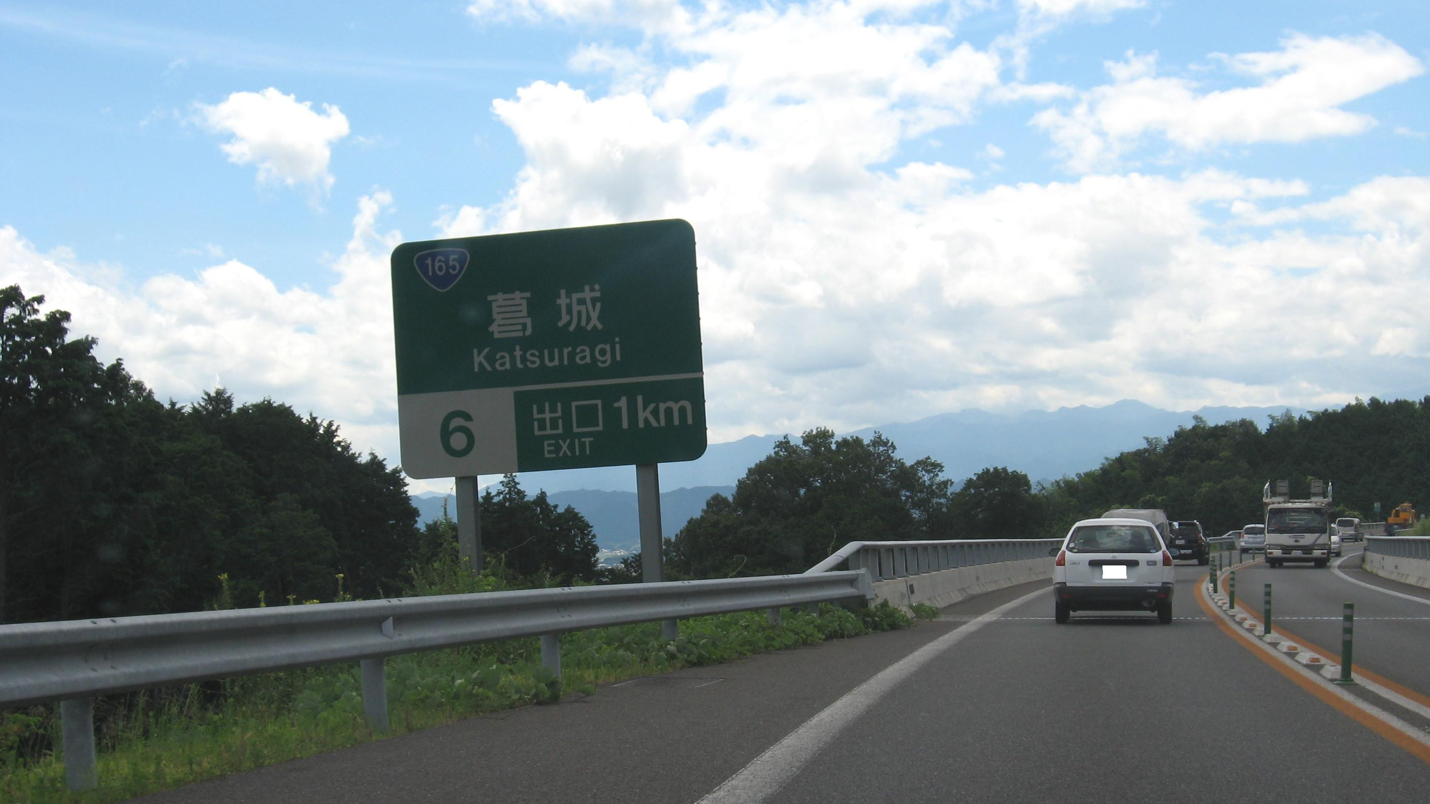 Katsuragi IC